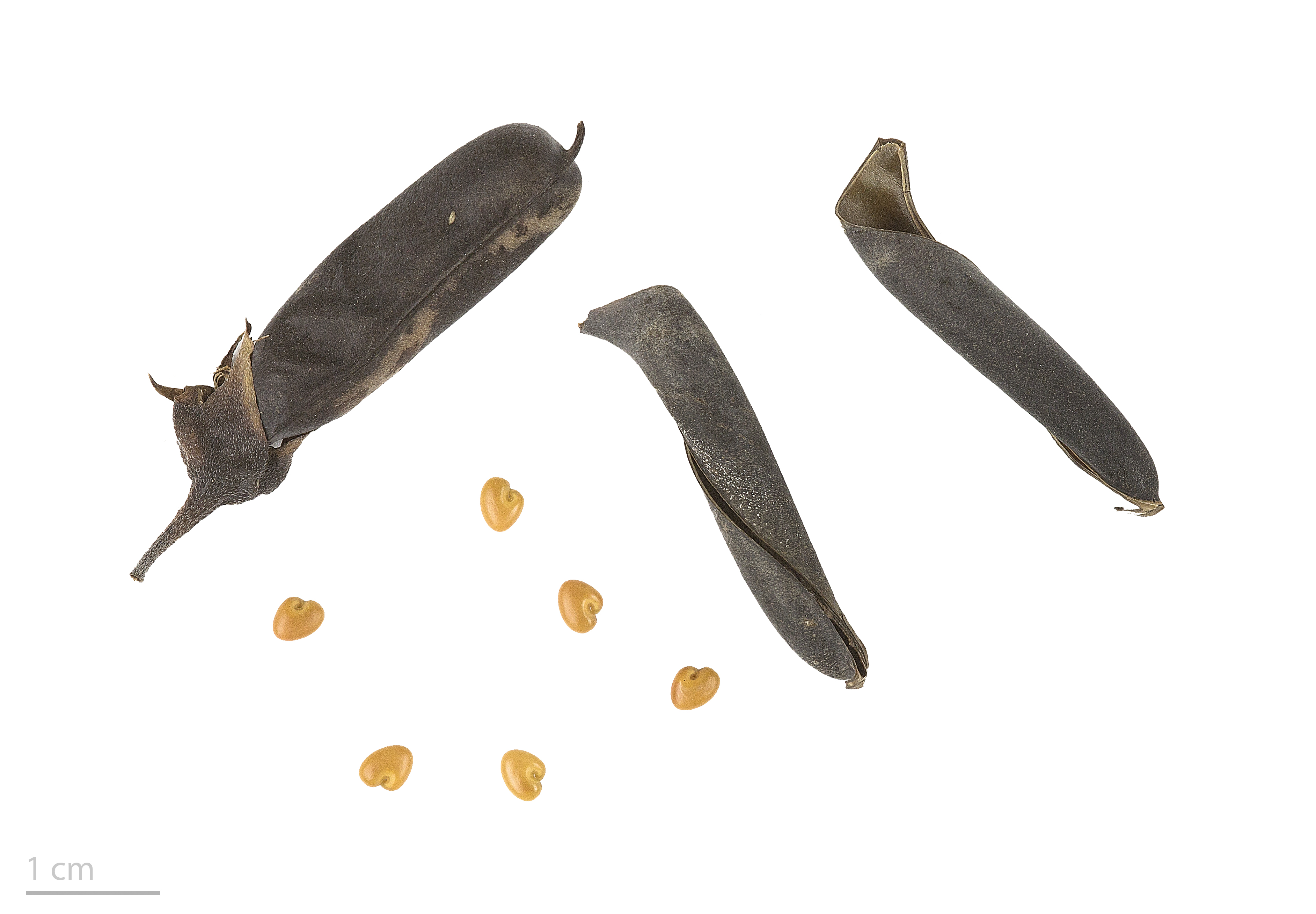 Crotalaria retusa, devil-bean, seeds